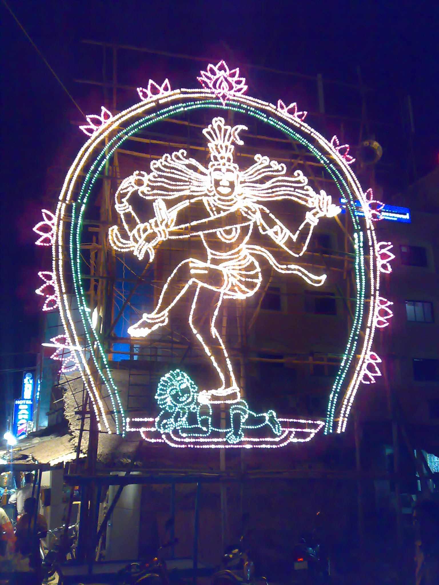 Srikalahasti in the indian state of Andhrapradesh